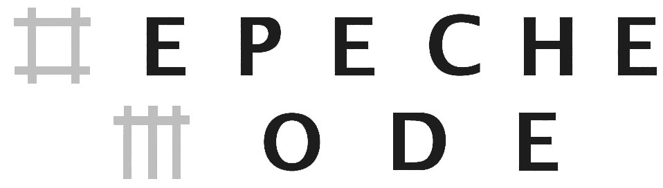 Depeche Mode Logo